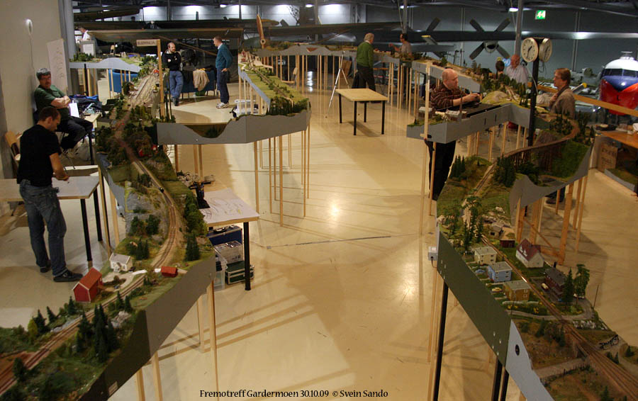 FREMO-gathering at Gardermoen, Norway, November 2009